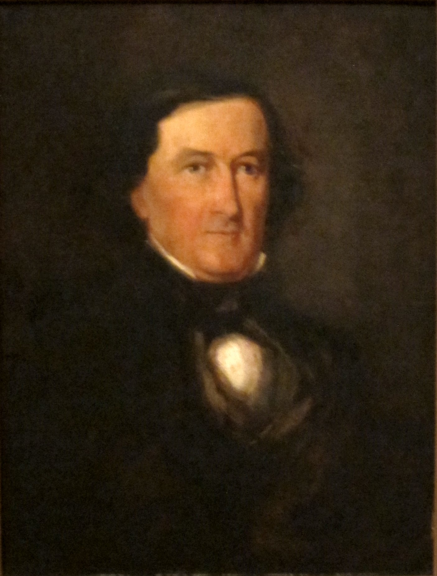 Portrait of Major George Washington Whistler by Henry Inman, c. 1843, Cincinnati Art Museum